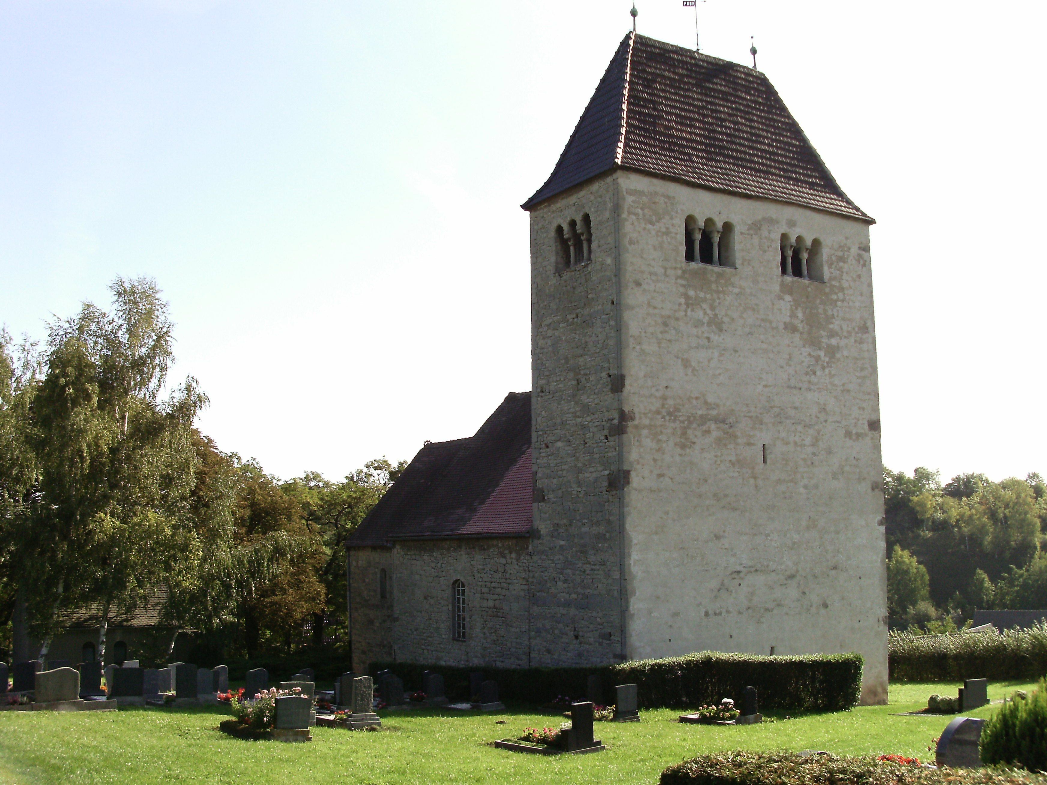 Romanesque St. Michael Church, St. Micheln (Mücheln/Geiseltal, district of Saalekreis, Saxony-Anhalt)